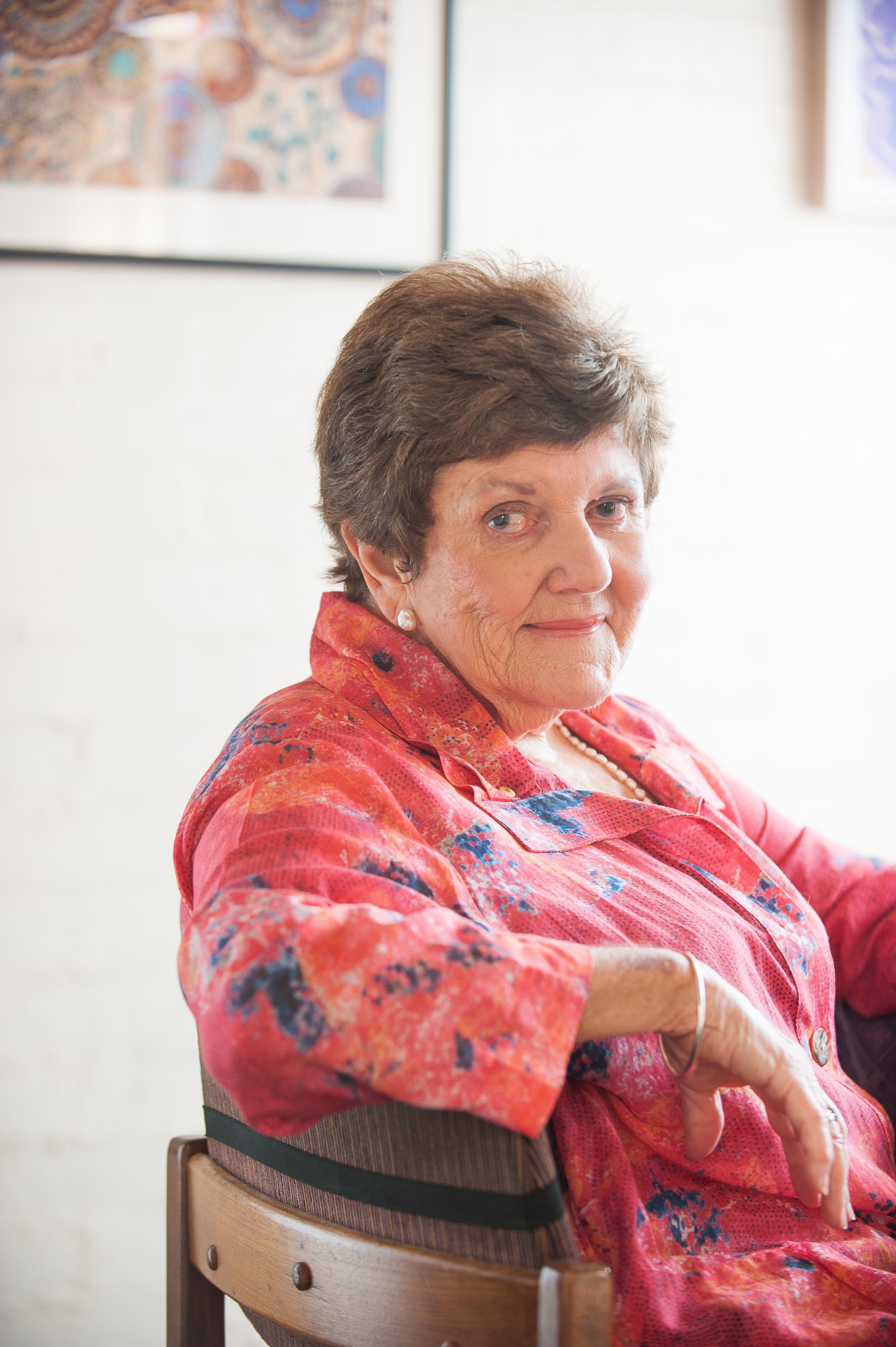 Joan Kirner AC at home in February 2013